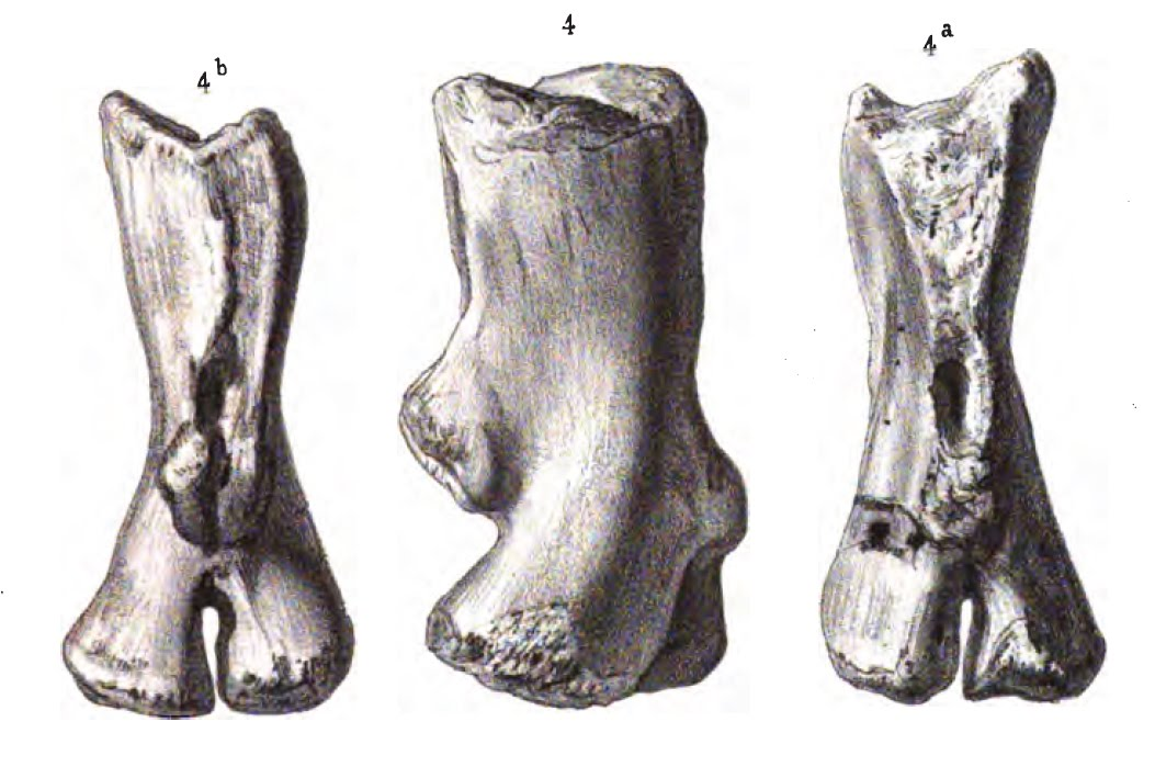 Rachitrema pellati type neural arch in posterior (4b), right lateral (4) and anterior (4a) views. After Sauvage (1883).